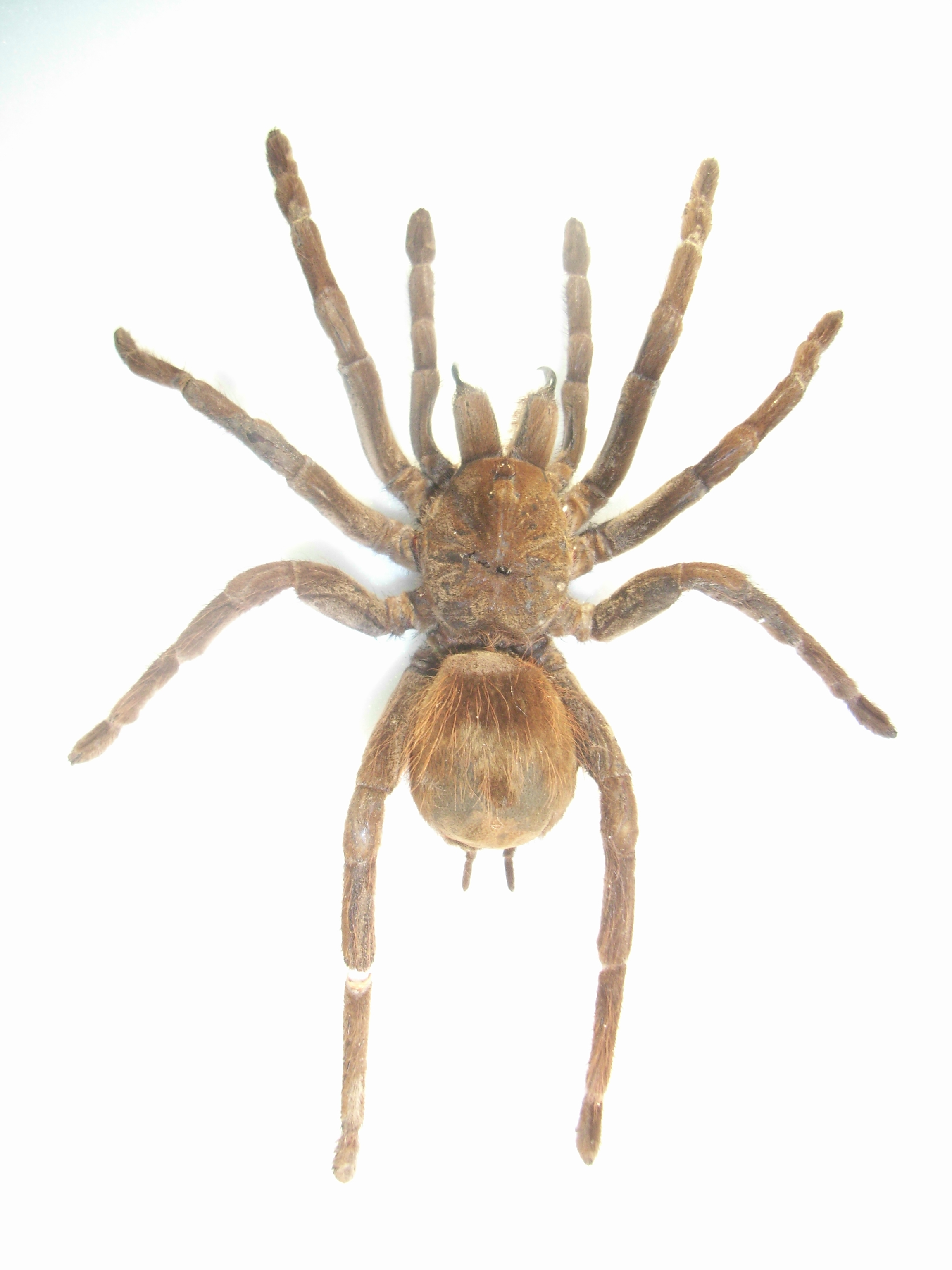 Megaphobema velvetosoma Schmidt Ex coll. Felix Stumpe